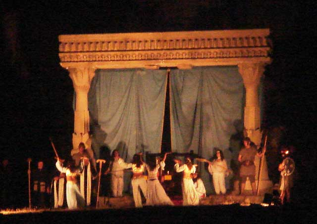 Passion of Christ at Ginosa (TA) (Italy)